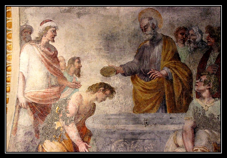 Baptism in the ancient church. Fresco in one of the middle layers, probably in the crypt, of Santa Prisca in Rome.